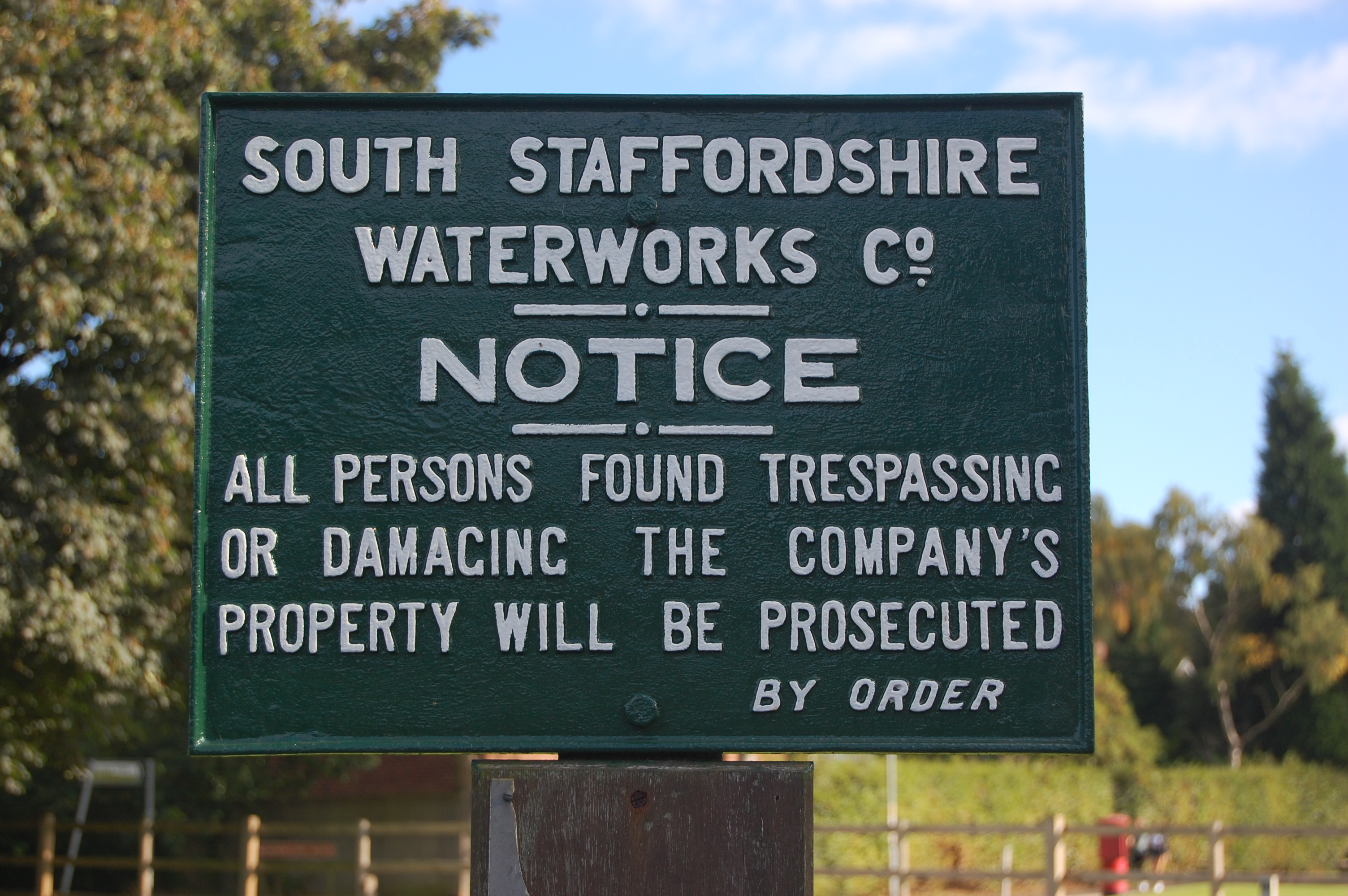 Sign at South Staffordshire Water's site at Foley Road West, Aldridge.